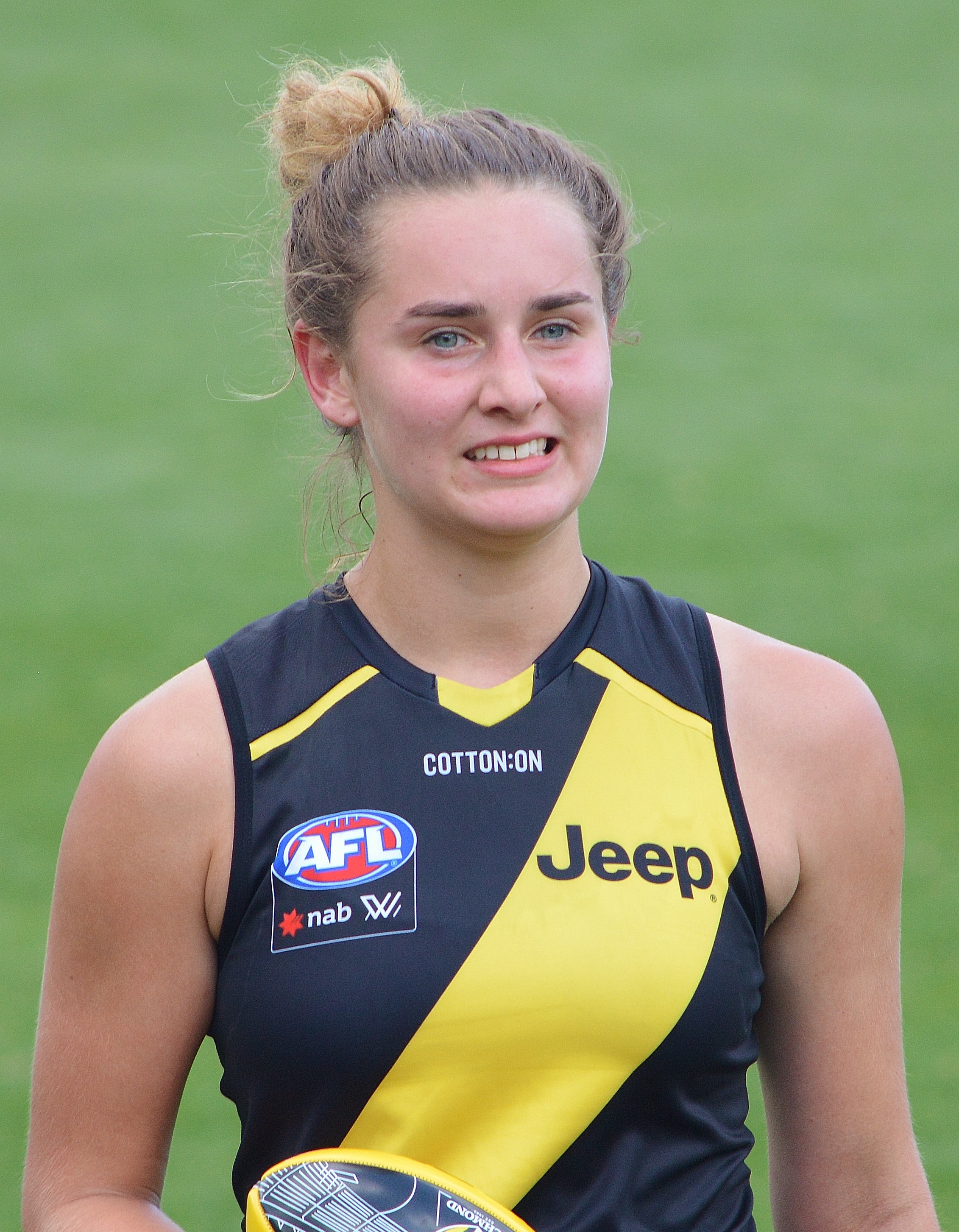 Laura McClelland with Richmond during the round 3, 2020 AFL Women's match against North Melbourne at Ikon Park.